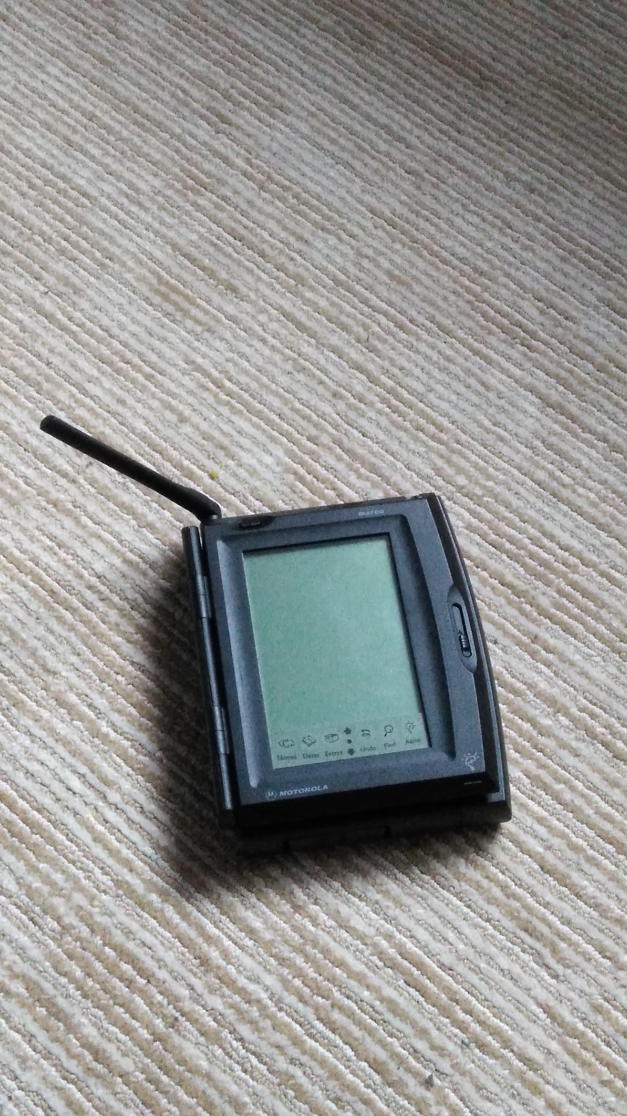 it is a Motorola Marco from a top-down view while it is off.